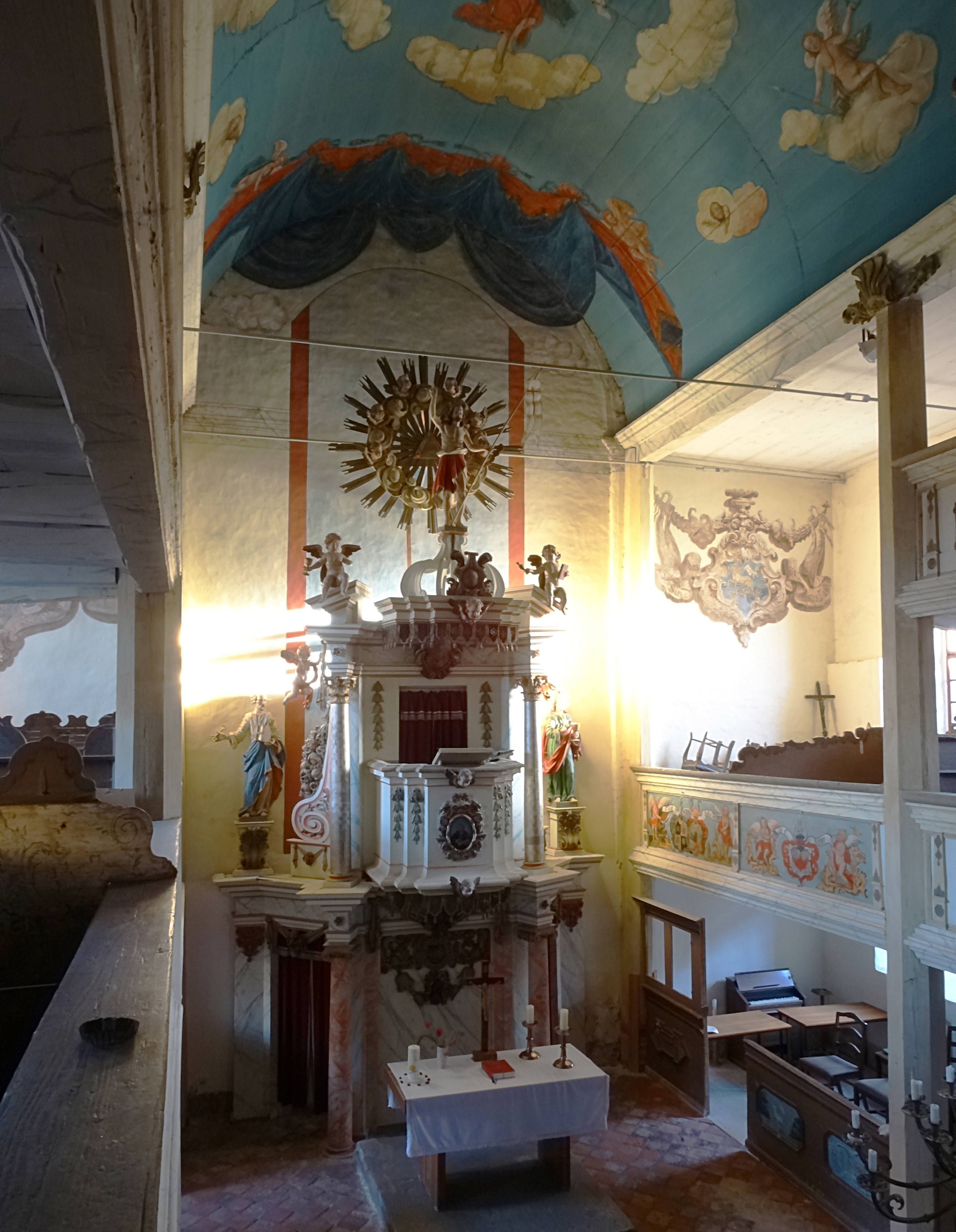 Kanzelaltar des Bildhauers Christian Johann Biedermann aus den Jahren 1728/1730